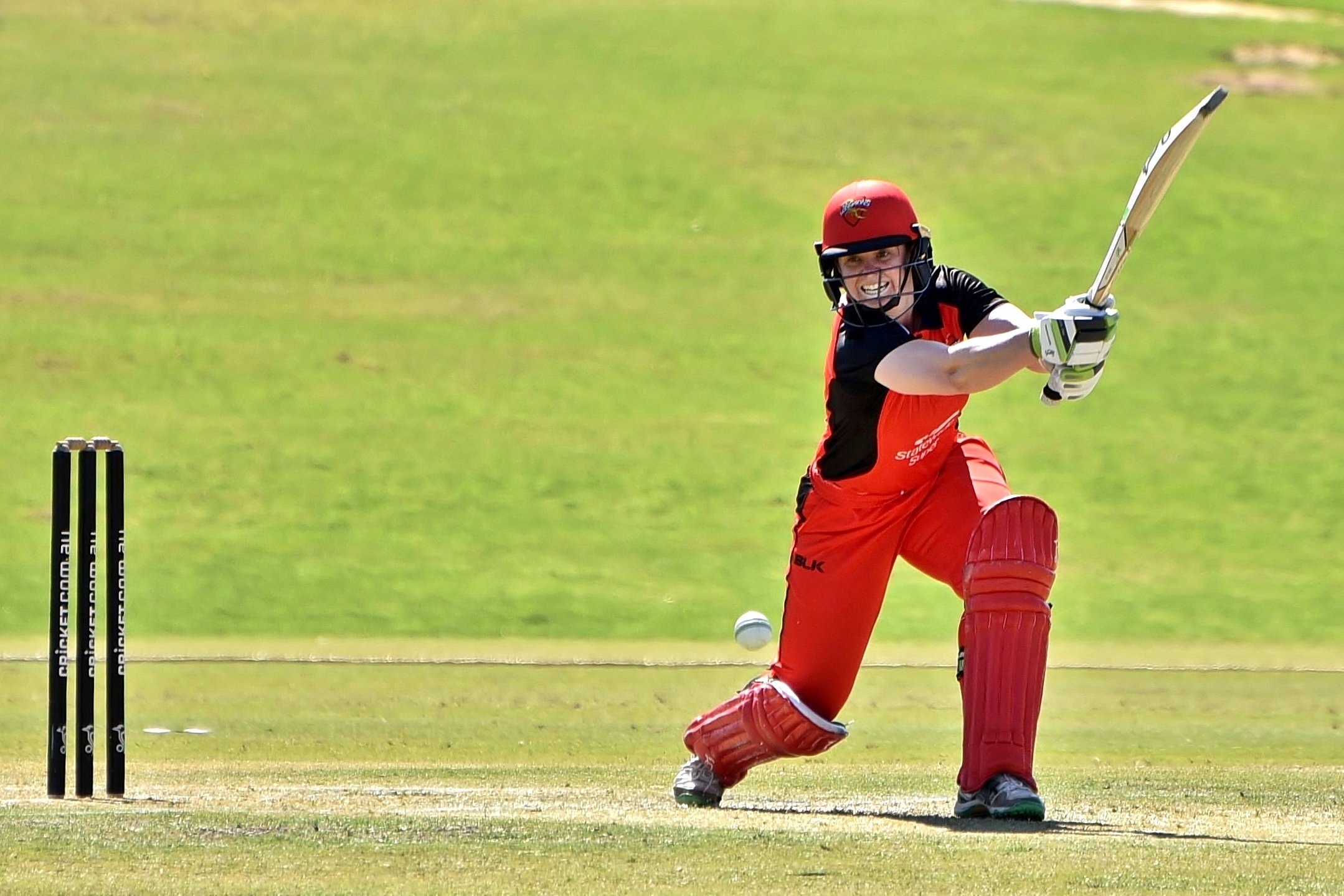 Tegan McPharlin on her way to 69 for the South Australian Scorpions during a WNCL clash against the Victoria Women cricket team at Murdoch University Sports Oval in Perth